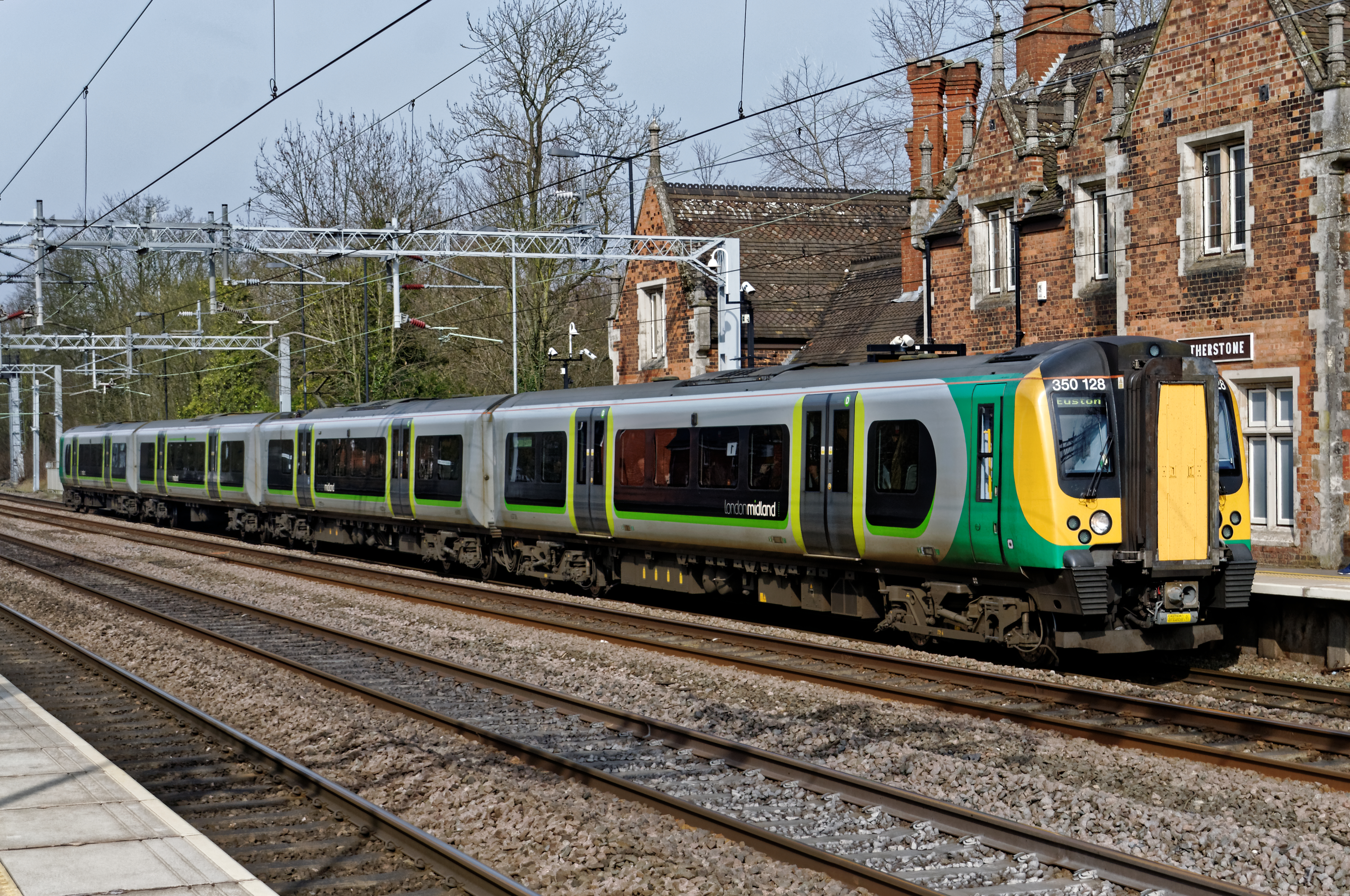 London Midland 350128 at Atherstone with the 12:28 service to London Euston.